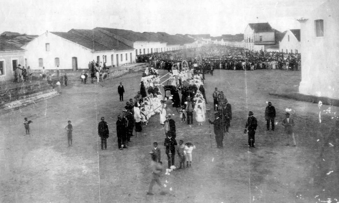 Santana's party in Caicó, Rio Grande do Norte.